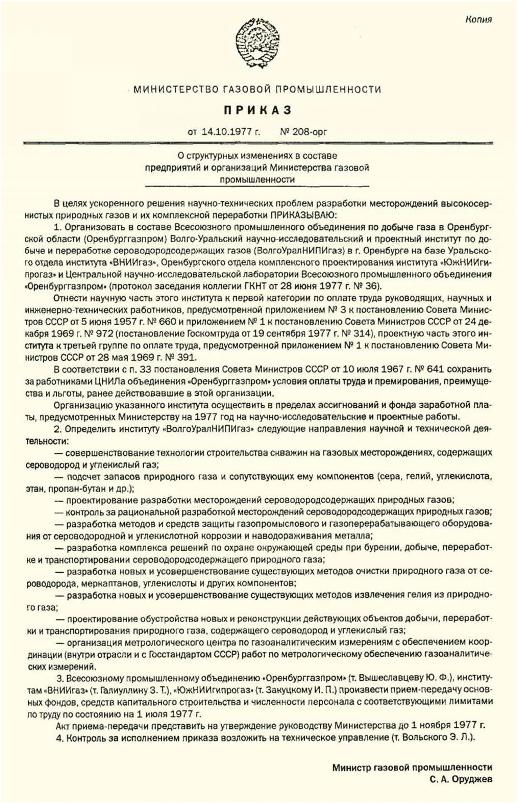 Prikaz Vunipigaz